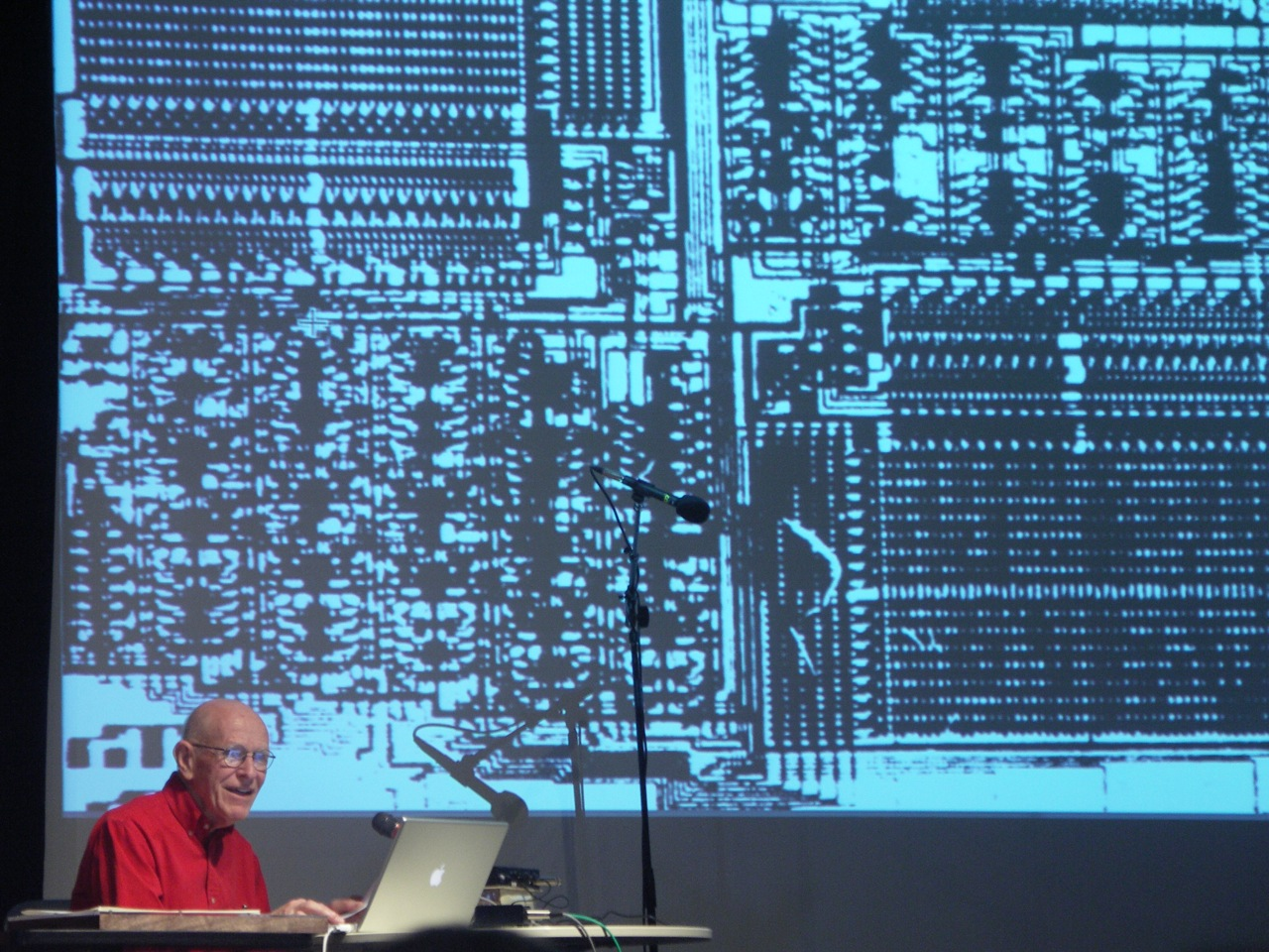 Max Mathews on 80th birthday talking about all the computers he used on his 80th birthday. behind him is a bit of a trade secret from long ago. I might have to pull this photo if I get caught.